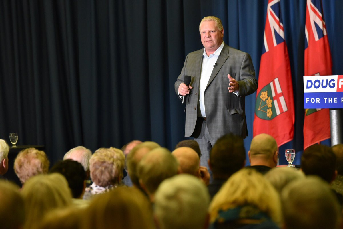 Doug Ford speaks to a crowd of supporters in Sudbury (May 3, 2018)